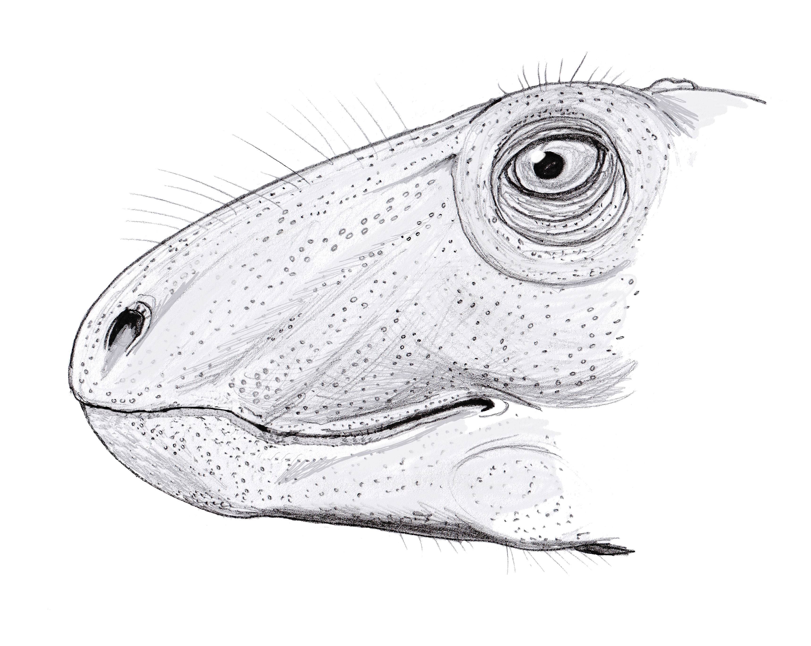 Sketch of Raranimus dashankouensis - probably most primitive therapsid.